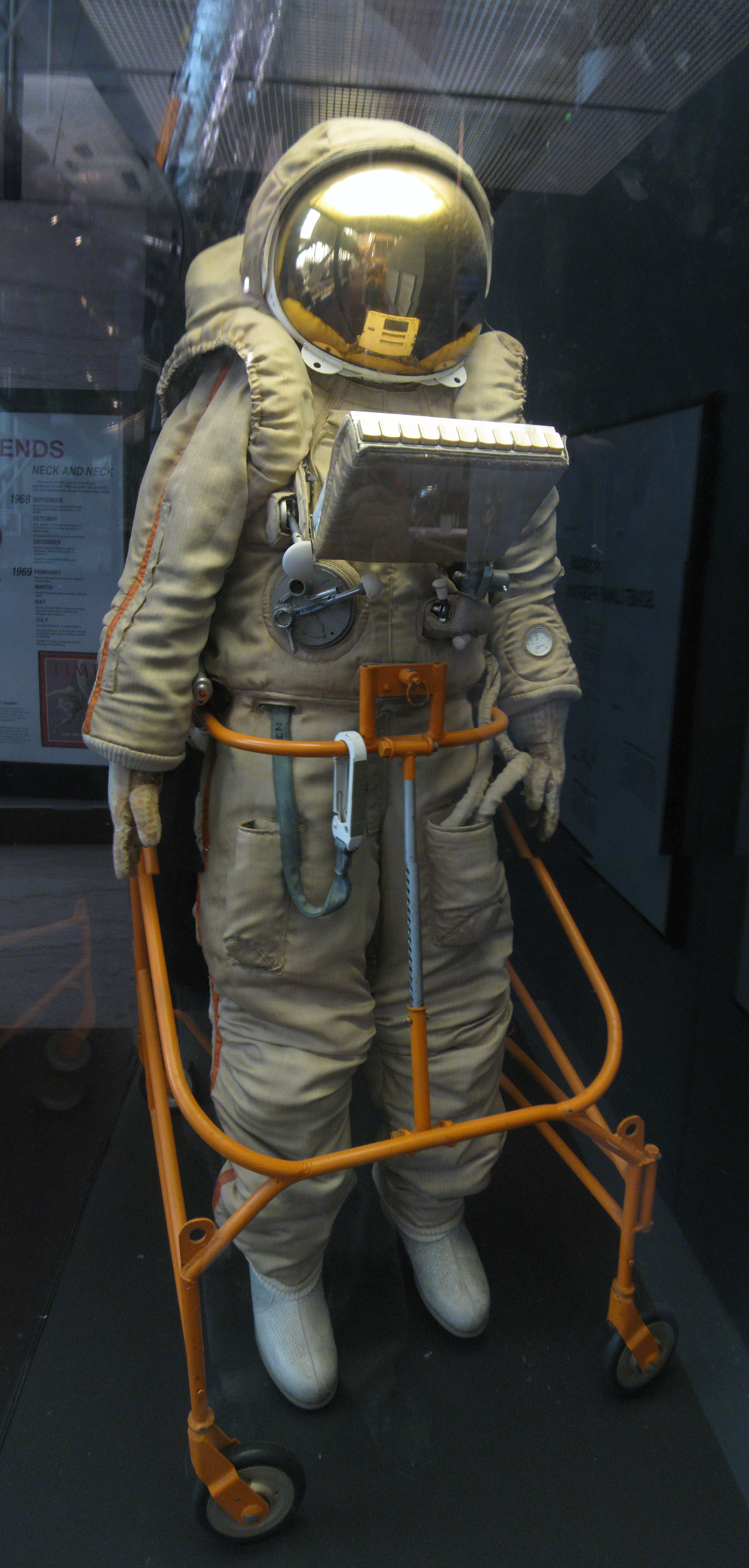 A Krechet-94 Soviet space suit, for use on lunar extra-vehicular activity, on display at the National Air and Space Museum in Washington, D.C. This image is composed of several individual images taken at close range and stitched together.